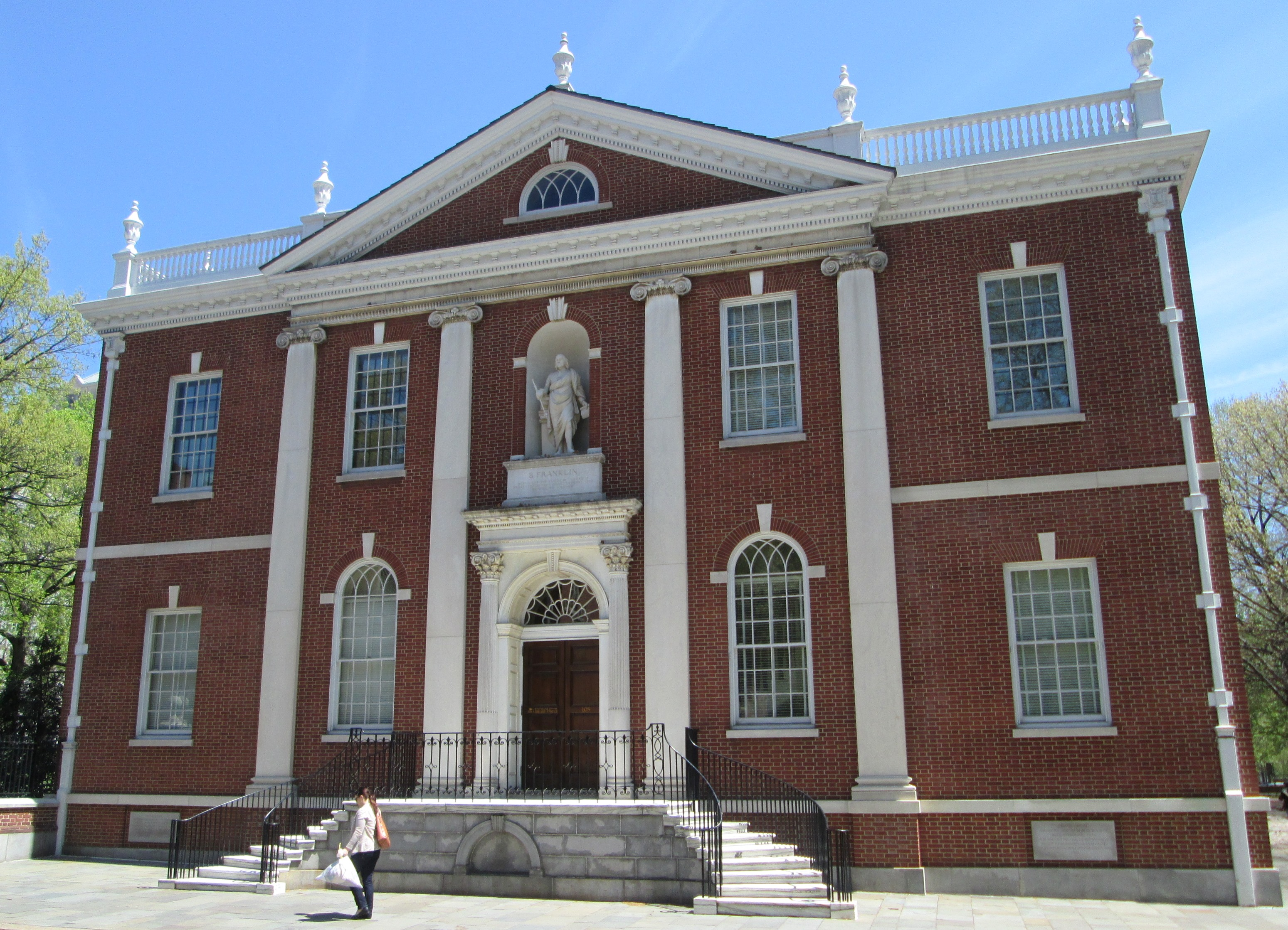 Library Hall of the American Philosophical Society, at 105 S. 5th Street between Chestnut and Walnut Streets in the Independence Hall National Historical Park in Philadelphia was built in 1958. The facade of the building reproduces the facade of the headquarters of The Library Company of Philadelphia, which stood on the same site from 1790-1884, when it was razed for the expansion of the Drexel Building, which itself was demolished in the mid-1950s.